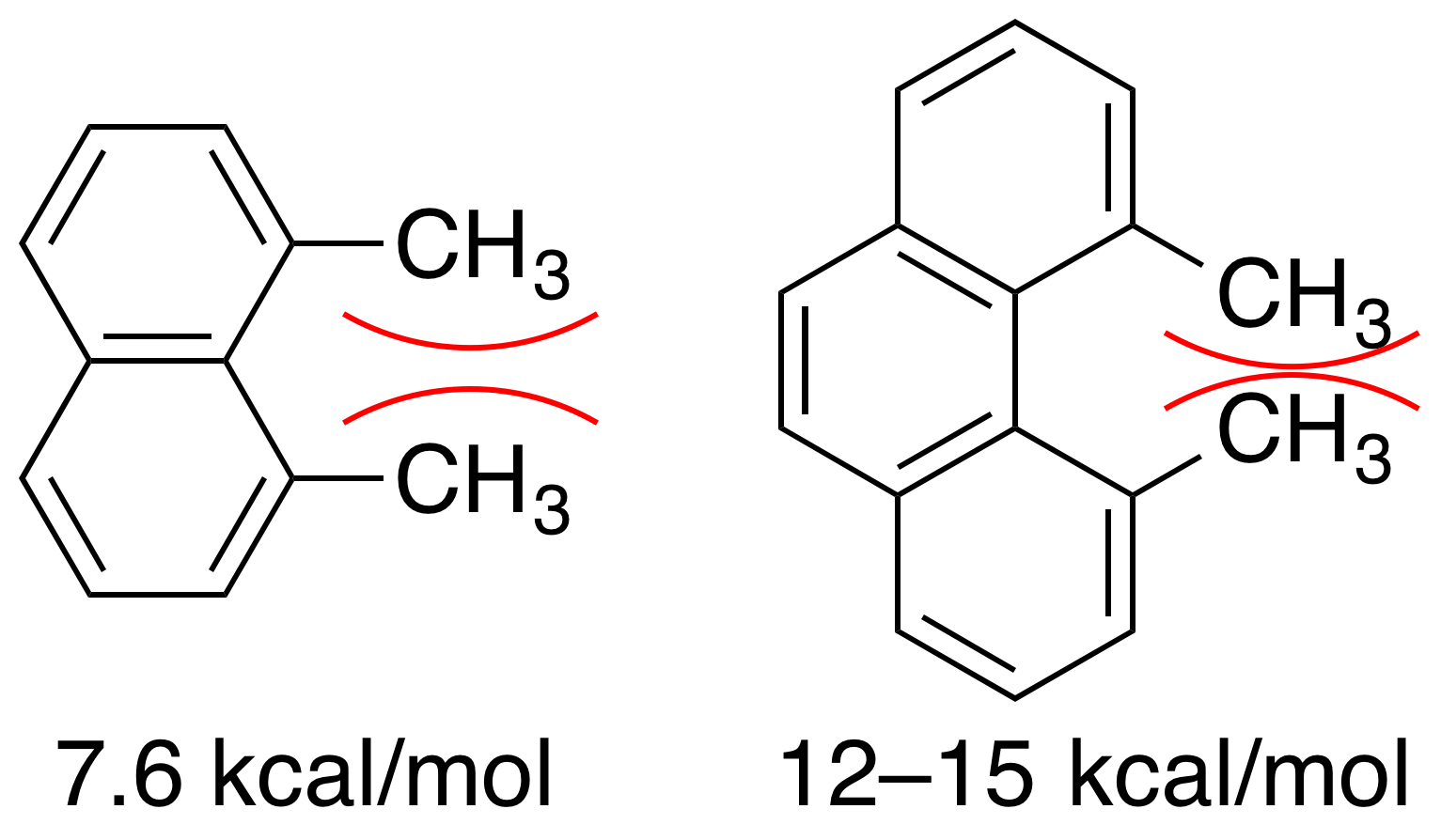 Skeletal structures of 1,8-dimethylnaphthalene and 4,5-dimethylphenanthrene annotated with the steric effects between the two methyl groups. Data from (1968). "Allylic Strain in Six-Membered Rings". Chem. Rev. 68 (4): 375–413.